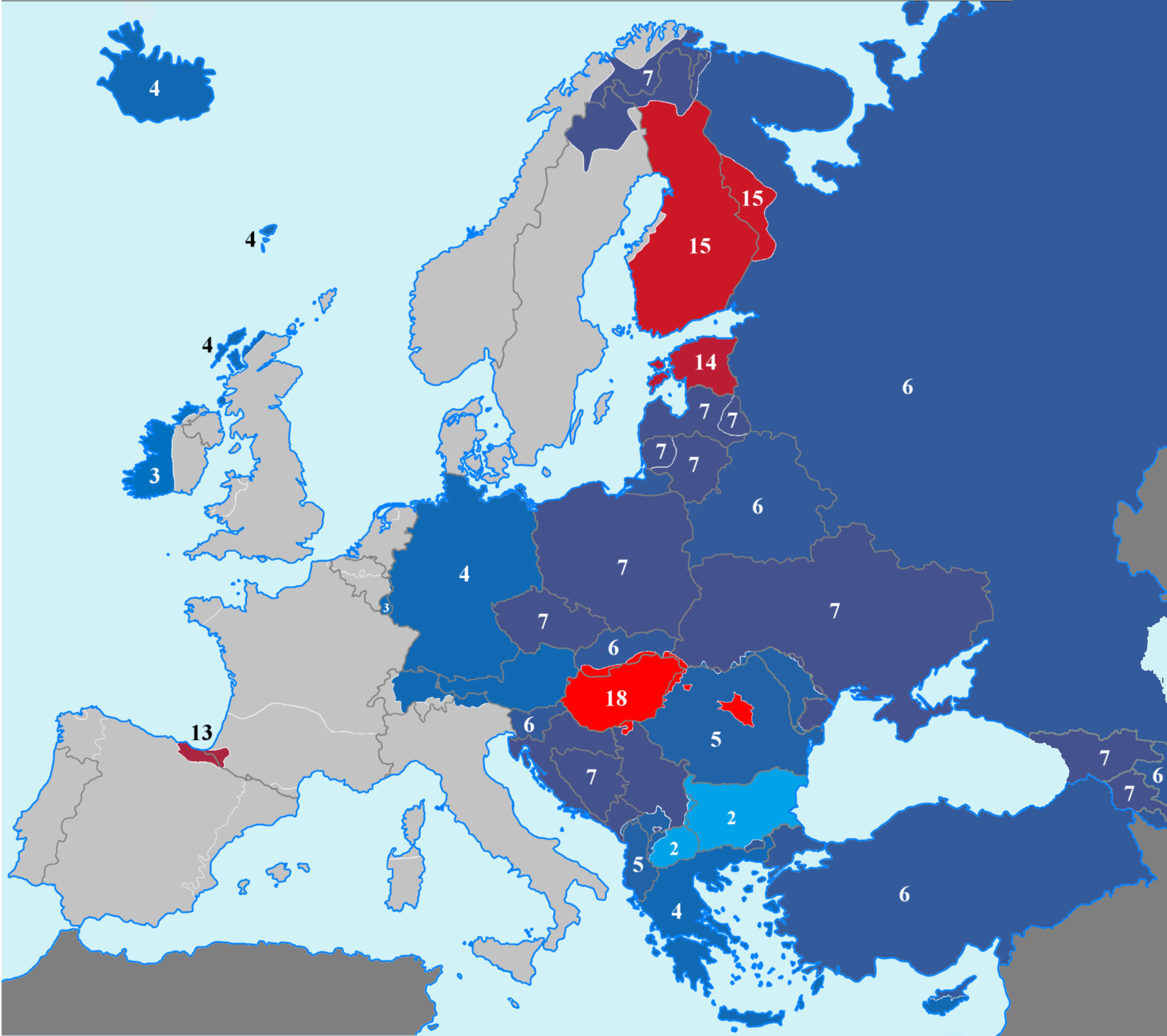 Number of grammatical cases currently in use in European languages. Light grey areas are for languages which don't use grammatical cases. (Modified to show light text against dark background, remove embedded English description.)